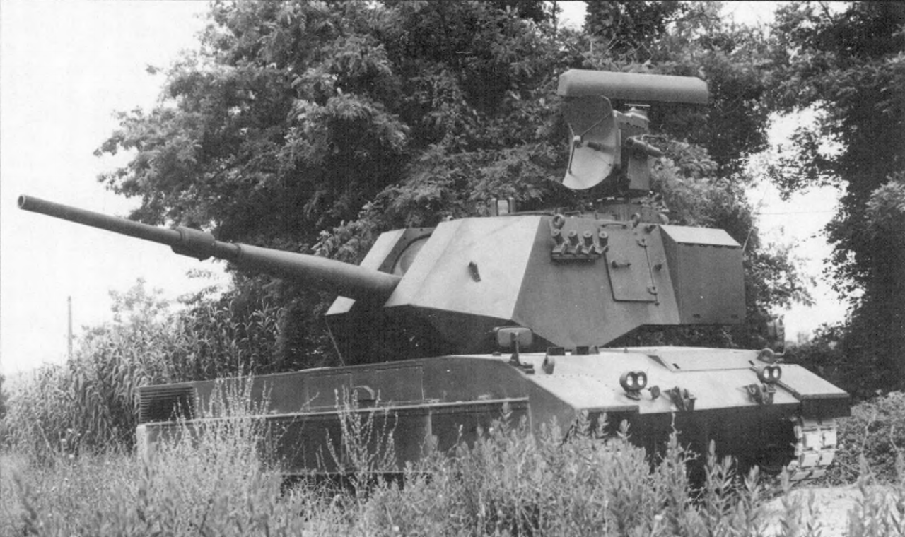 76-mm Super Rapid Gun System mounted on Italian OF-40 main battle tank chassis